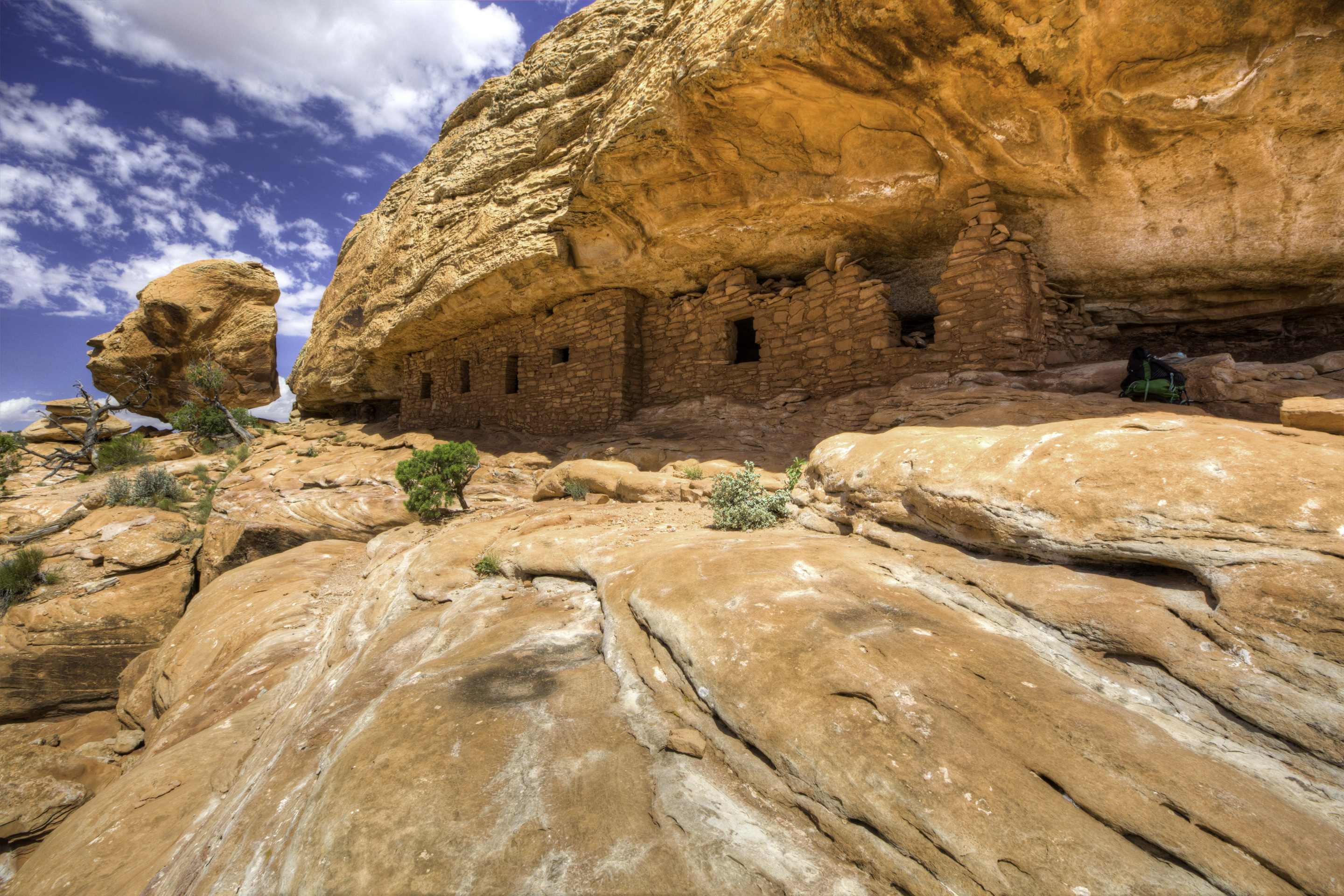 Cedar-mesa Ruins Bears Ears National Monument